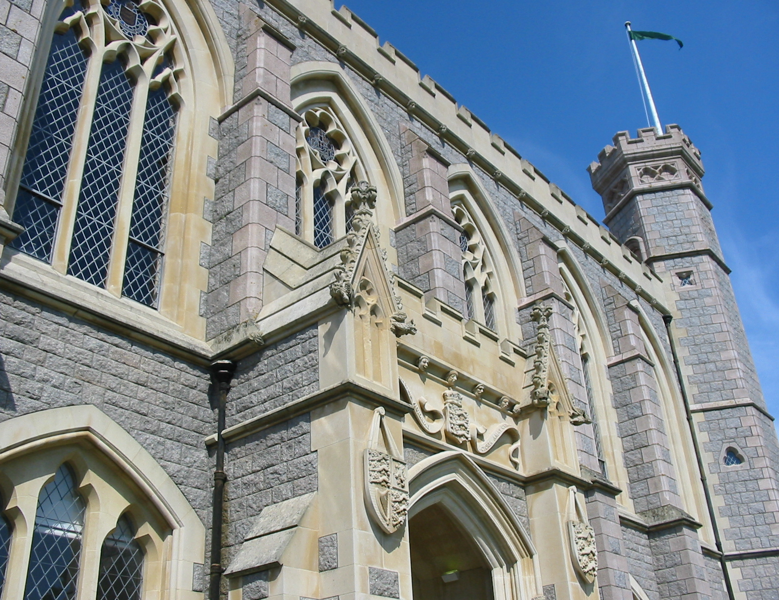 Victoria College, Jersey